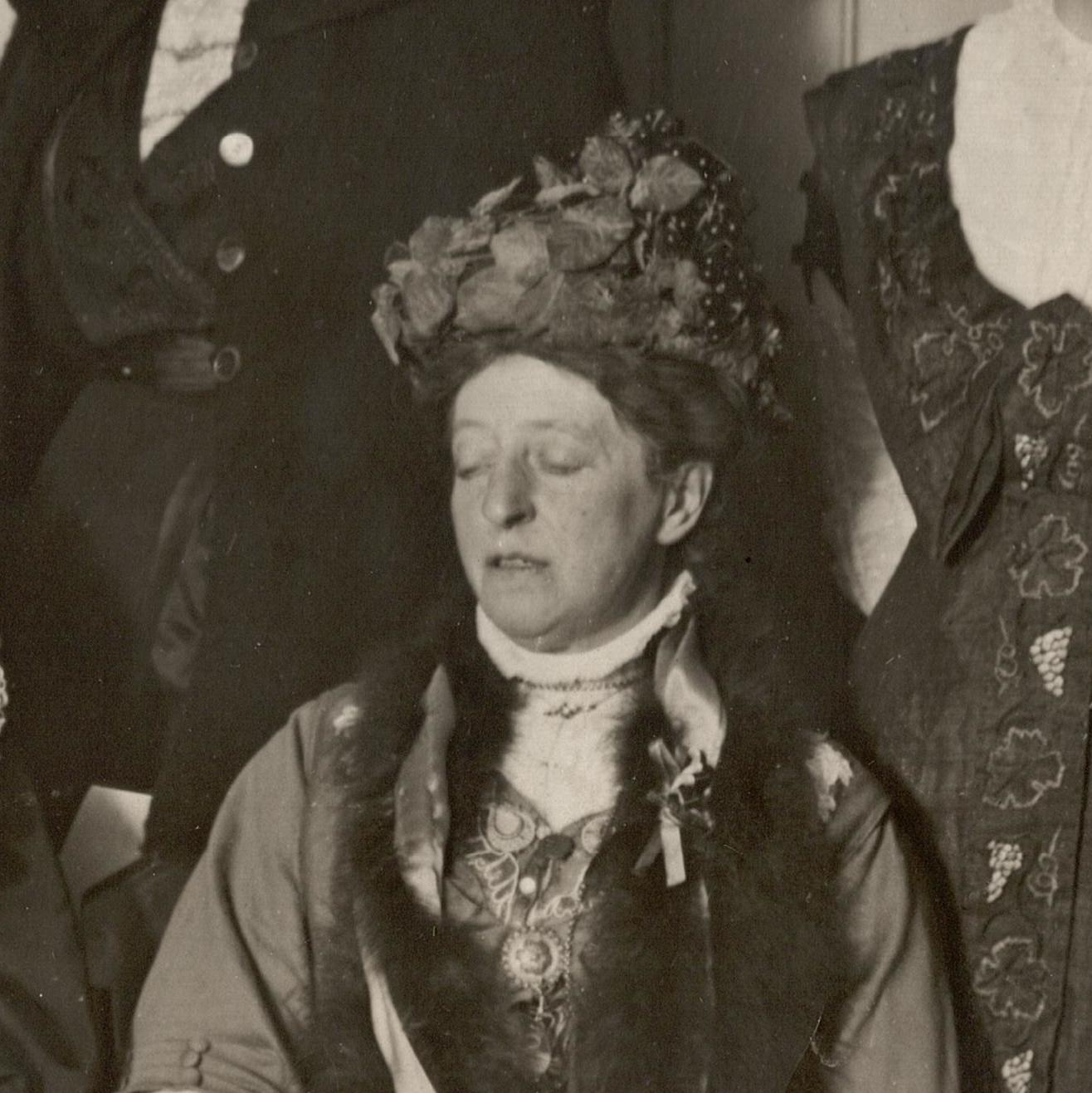 'Debate between Suffrage & Anti-Suffrage Societies held at Free Trade Hall, Manchester', 1909 group arranged in two rows one seated, one standing, indoors, manuscript inscription reverse: 'Debate between Suffrage & Anti-Suffrage Societies held at Free Trade Hall, Manchester. Sitting: Mrs Arthur Somerwell, Mrs Humphrey Ward, Miss Margaret Ashton, Mrs Helena Swanwick. Standing: Dean of Manchester. Miss - Gladstone, Mrs Margaret Hills (née Robertson)'. Source: Manchester Courier and Lancashire General Advertiser - Wednesday 27 October 1909. TWL.2004.524